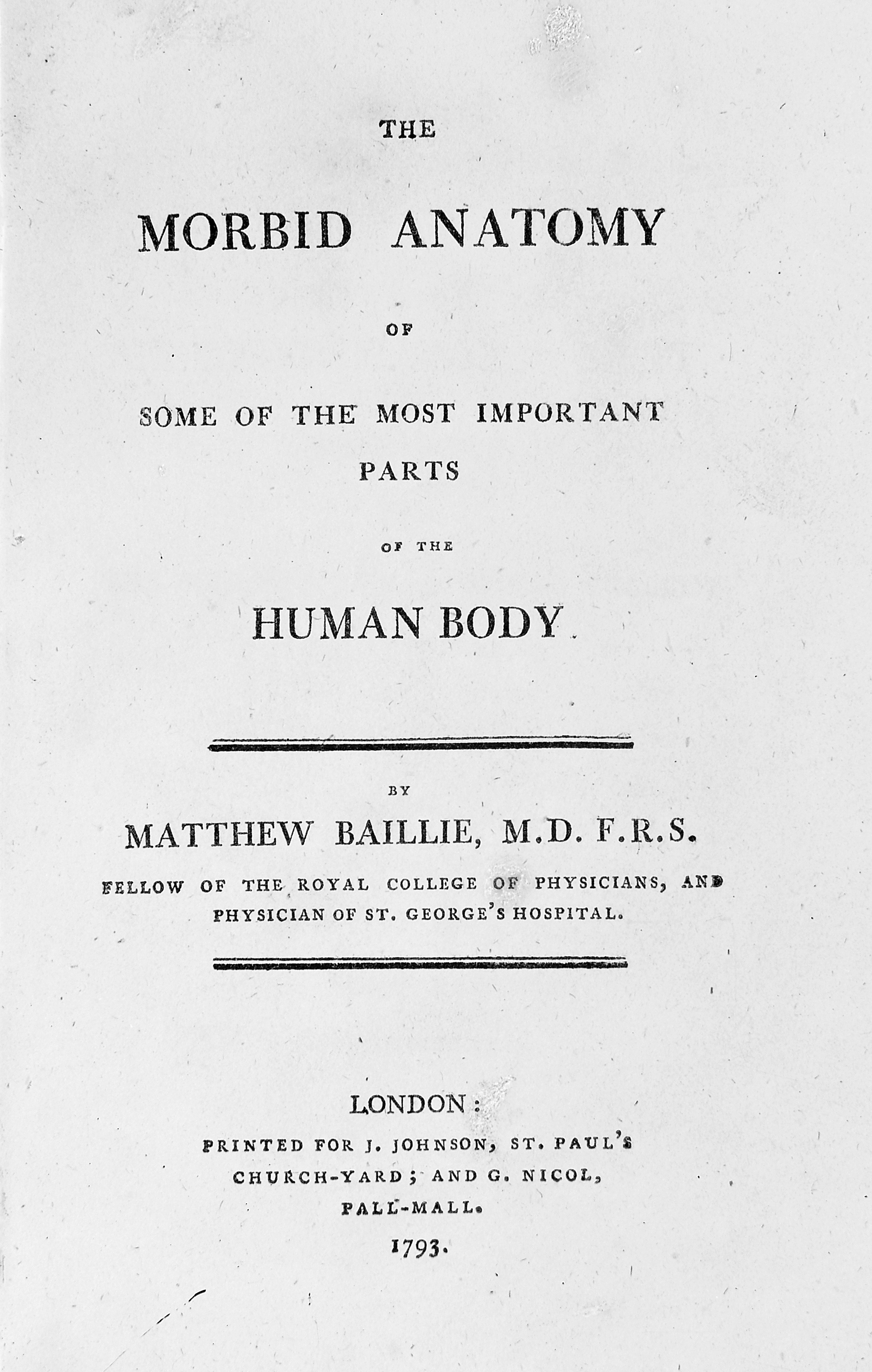 Title page. Rare Books